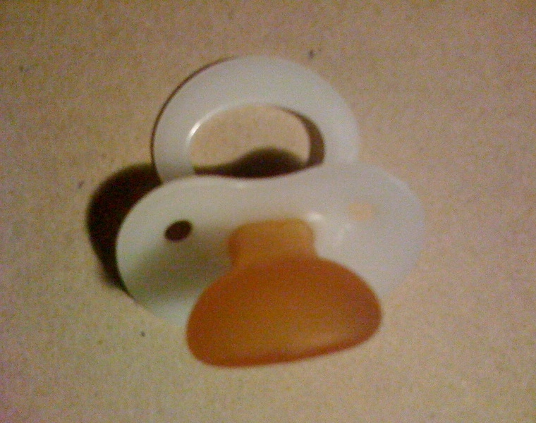 A NUK 5 adult pacifier.Taken with my iPhone